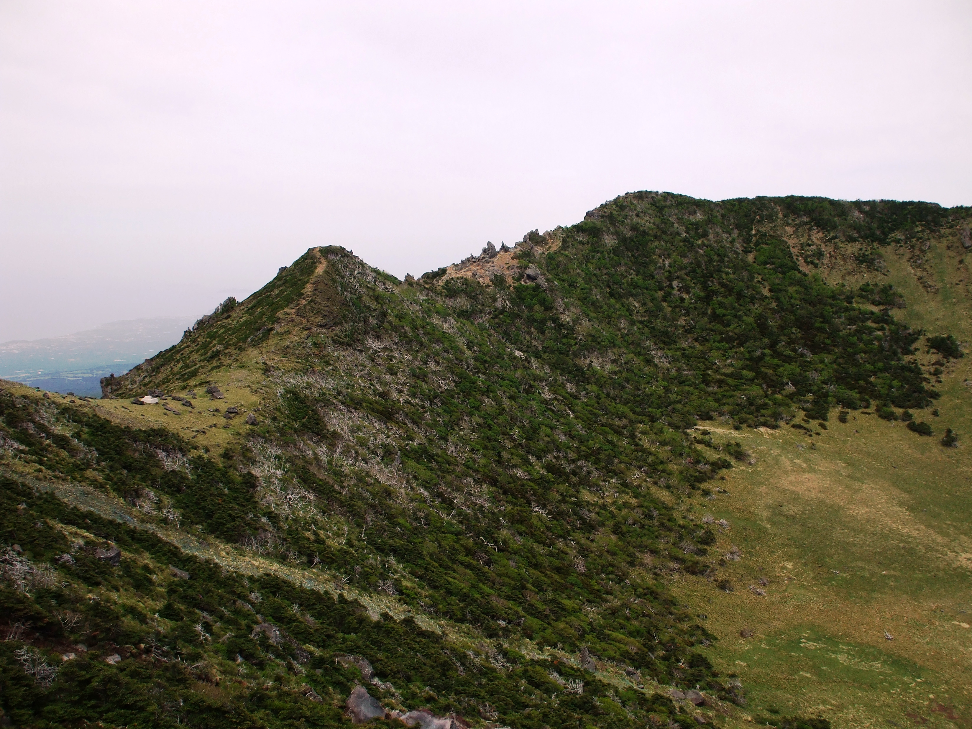 The highest peak of Mount Halla, Jeju Island, South Korea.